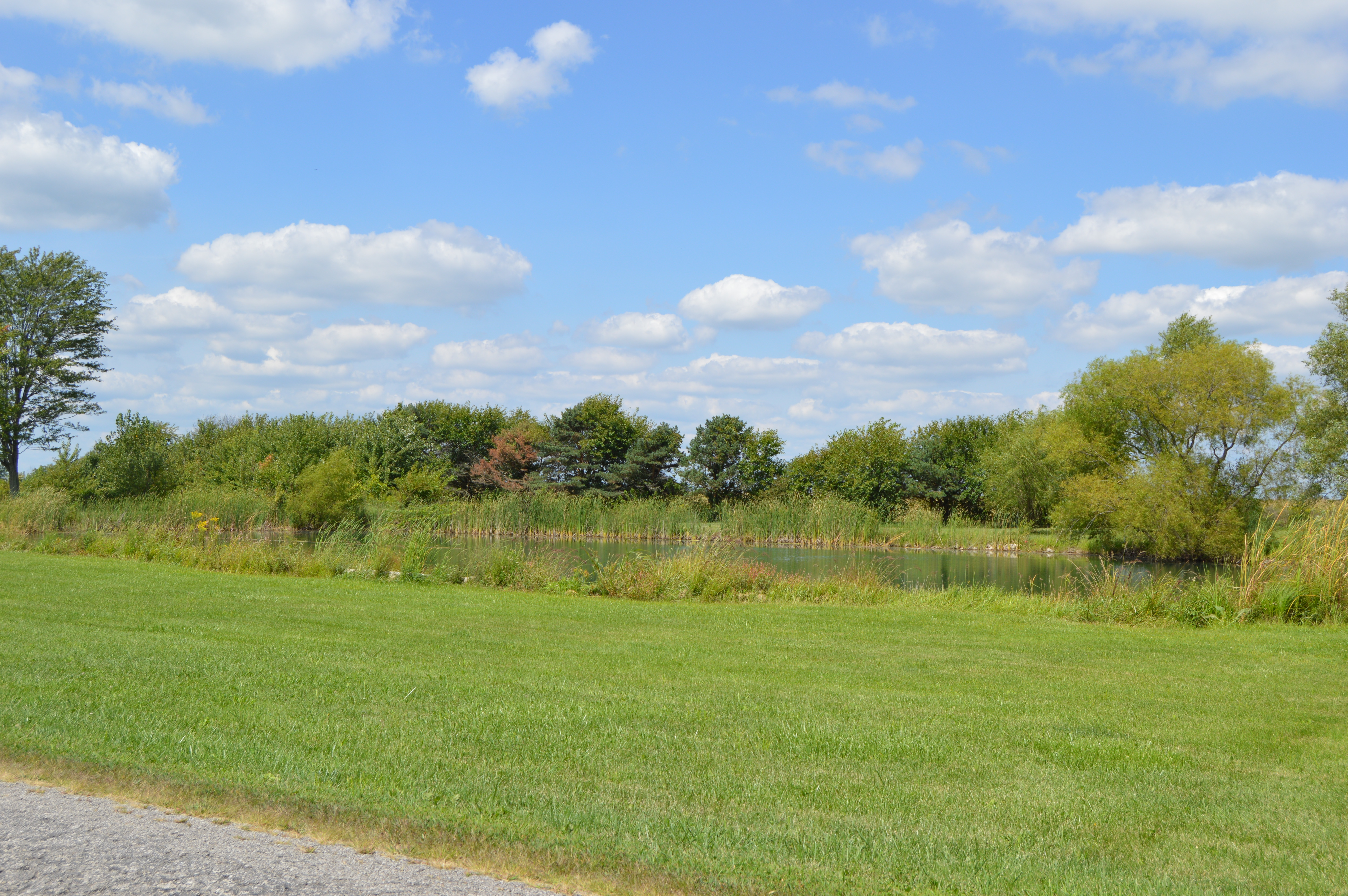 Overview from the south of a small pond on the northern side of County Road 153 in far western Westfield Township, Morrow County, Ohio, United States.